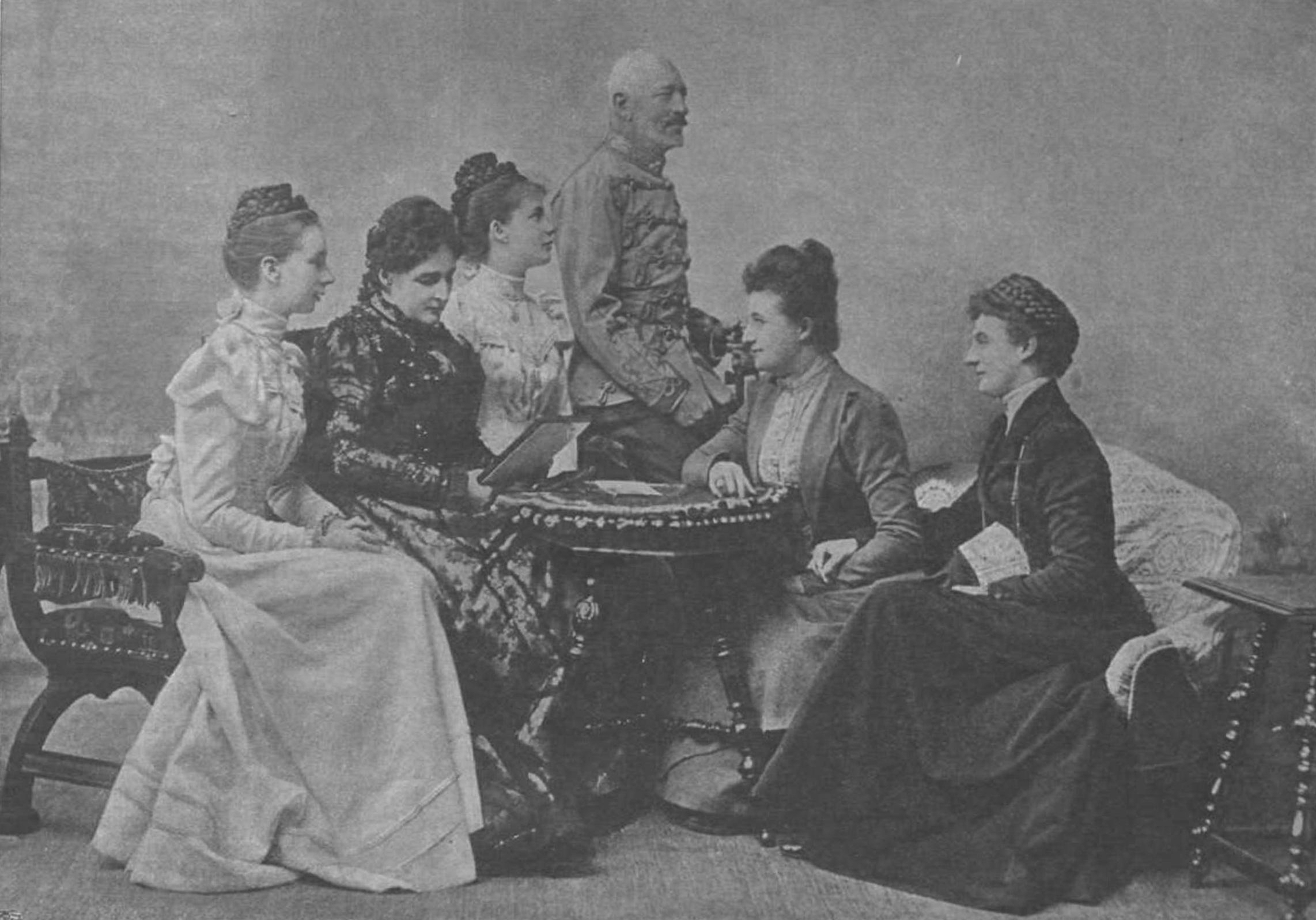 Archduke Joseph Karl Ludwig of Austria, Clotilde von Sachsen-Coburg und Gotha, Archduchess Maria Dorothea of Austria, Archduchess Margarethe Klementine of Austria